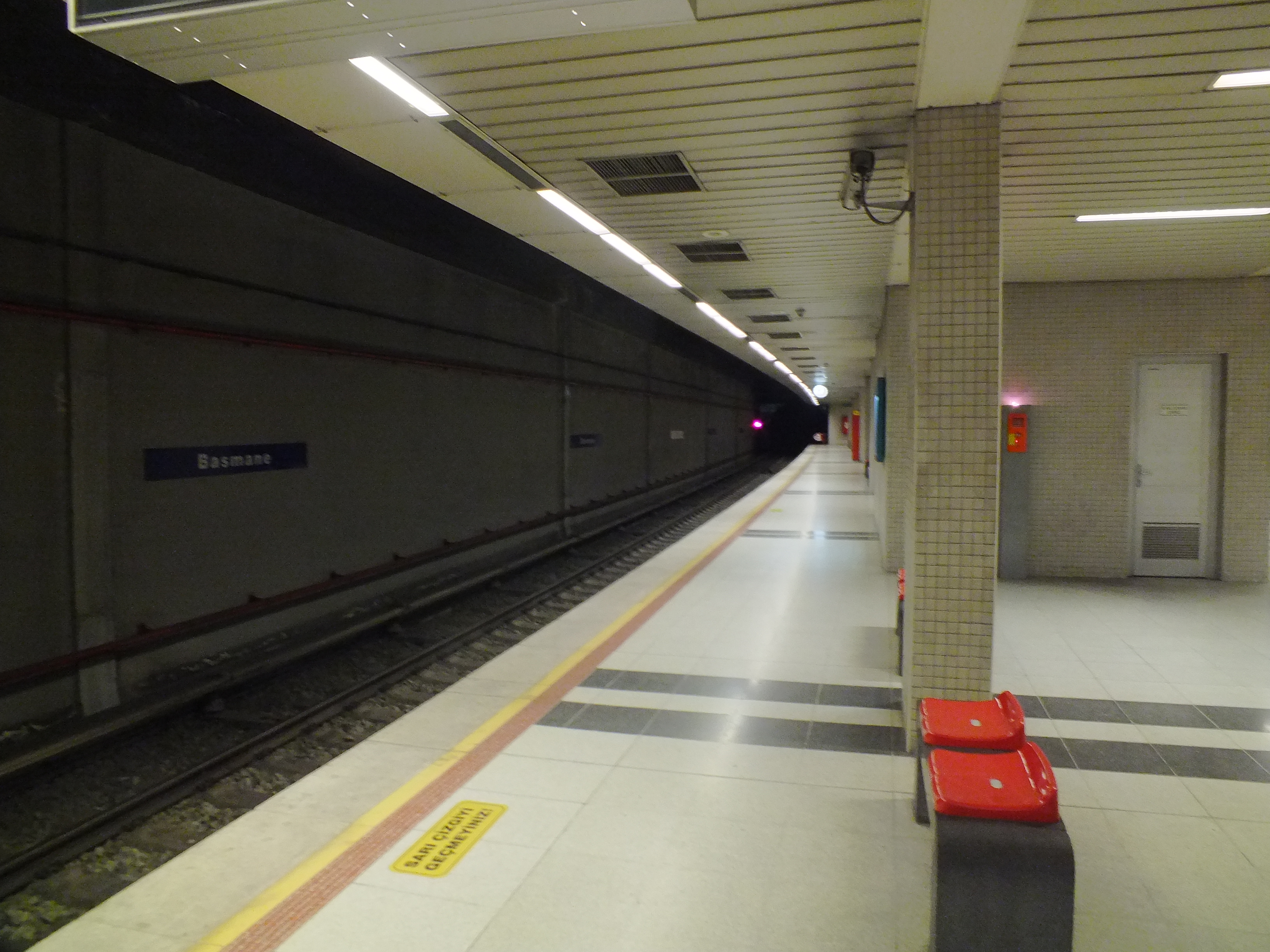 Basmane metro station.